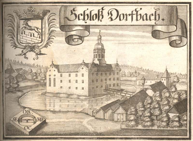 Castle Dorfbach near Ortenburg in the year 1723.